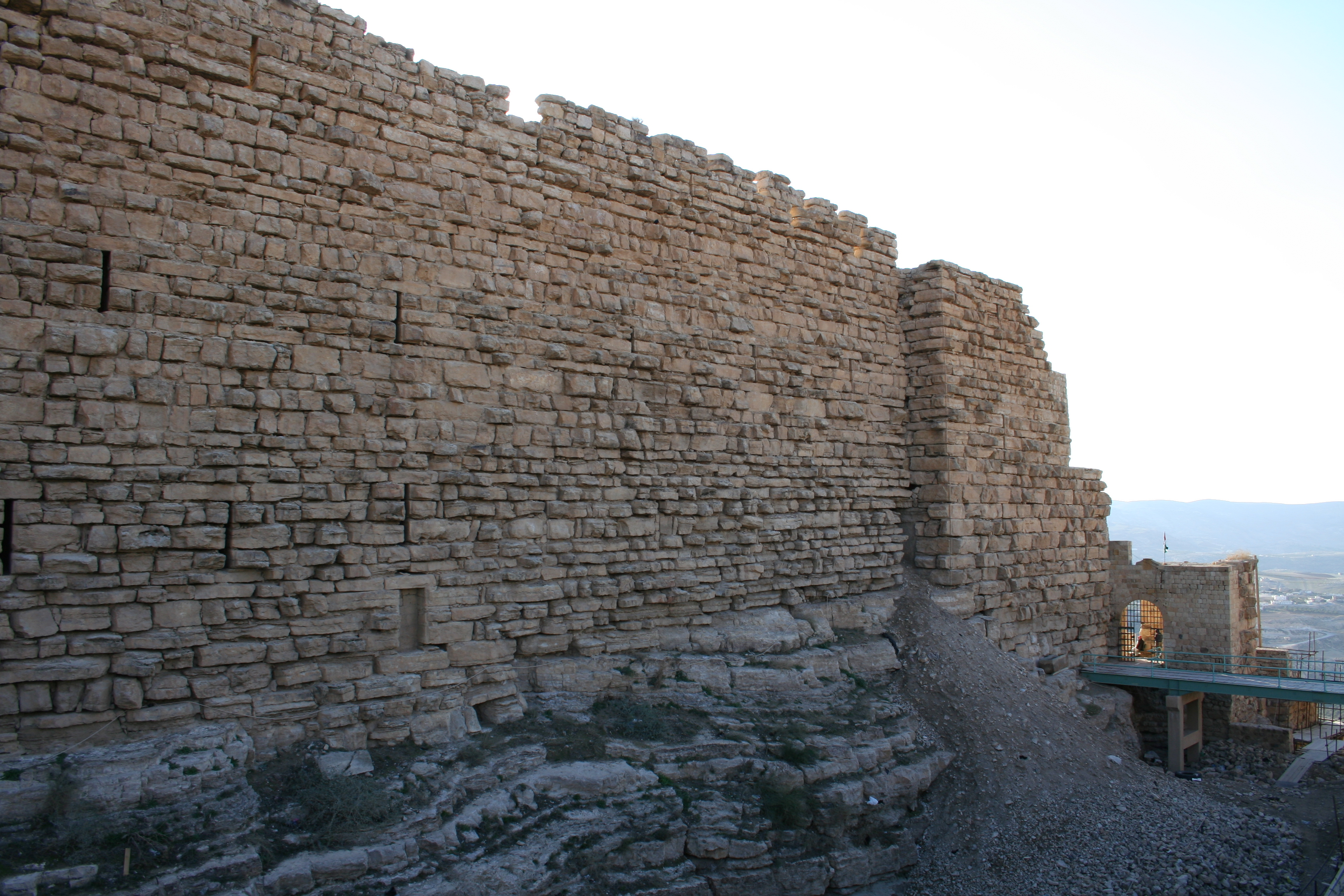 Karak Castle